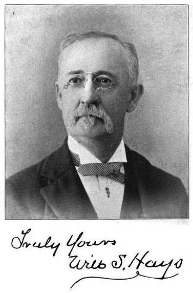 Photographer image of Kentucky songwriter William Shakespeare Hays (1837-1907) from a collection of his writings, 1895. Also includes replicated signature (as "Will S. Hays").